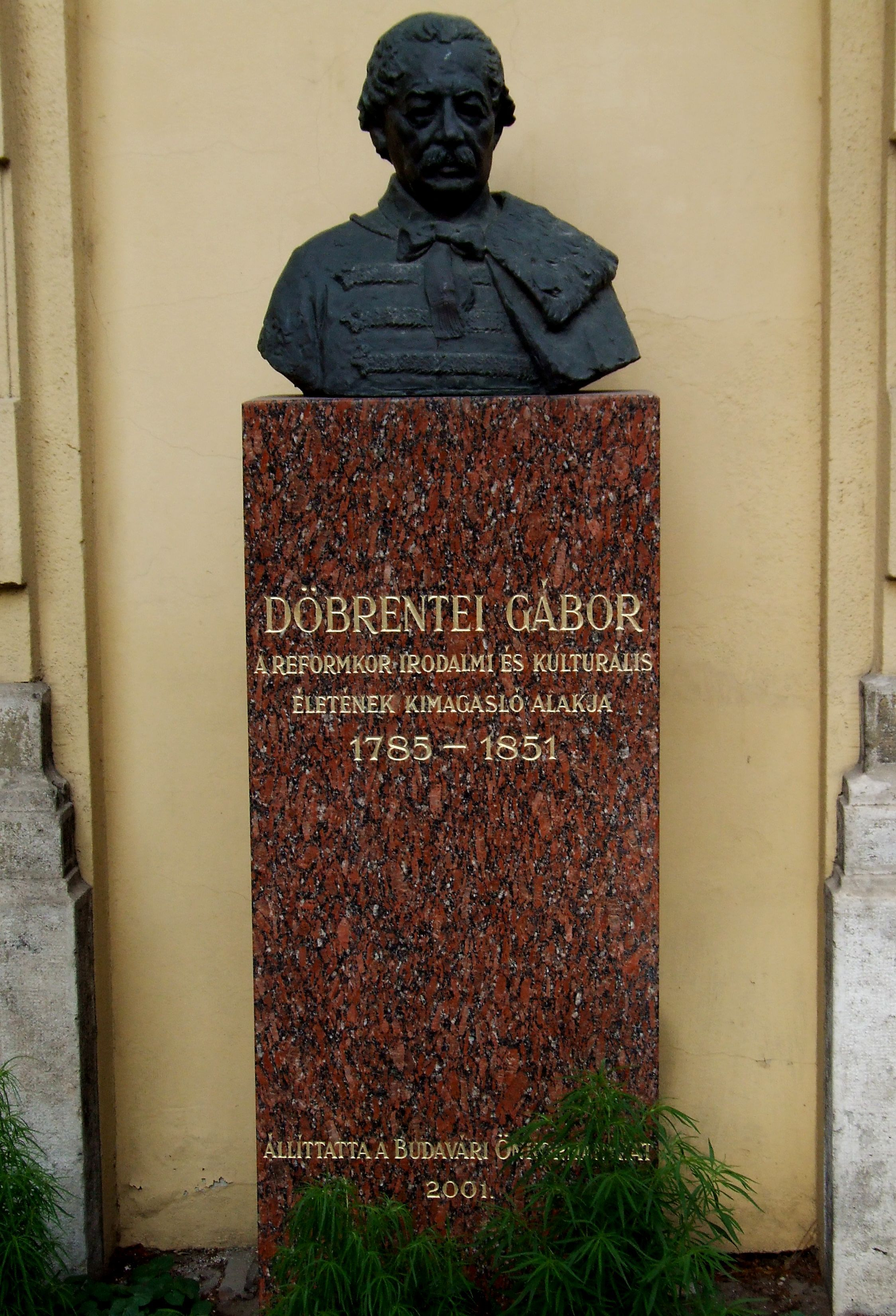 Gábor Döbrentei bust in Budapest District I, Döbrentei Street No 8. Sculptor: Márta Lesenyei (*1930) in 2001